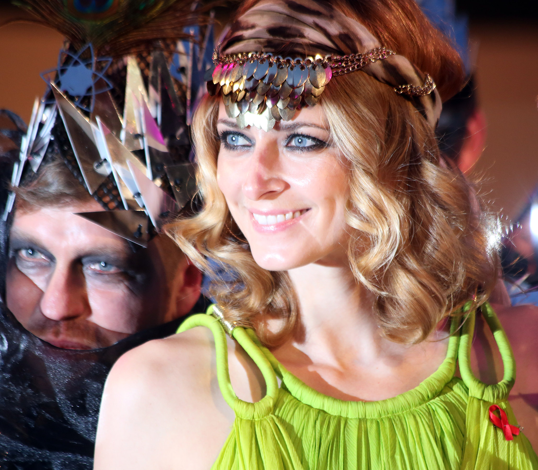 Eva Padberg on the 'magenta carpet' at Life Ball 2013 at the square in front of the city hall of Vienna, Vienna, Austria.